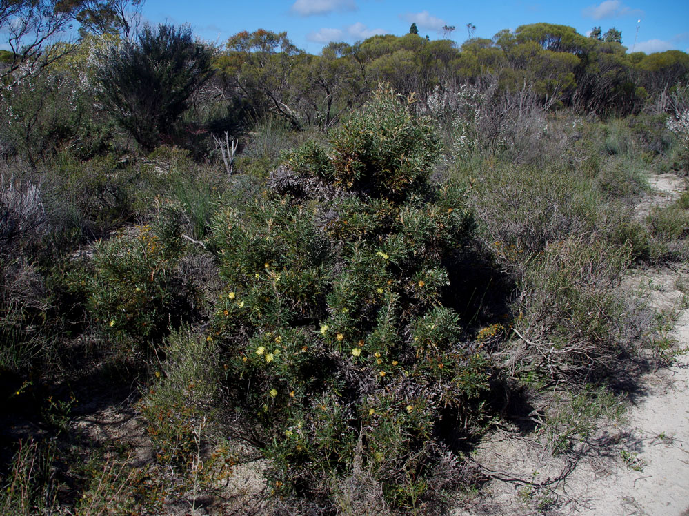 Banksia purdieana showing its habit in Ray Street, Wongan Hills, Western Australia